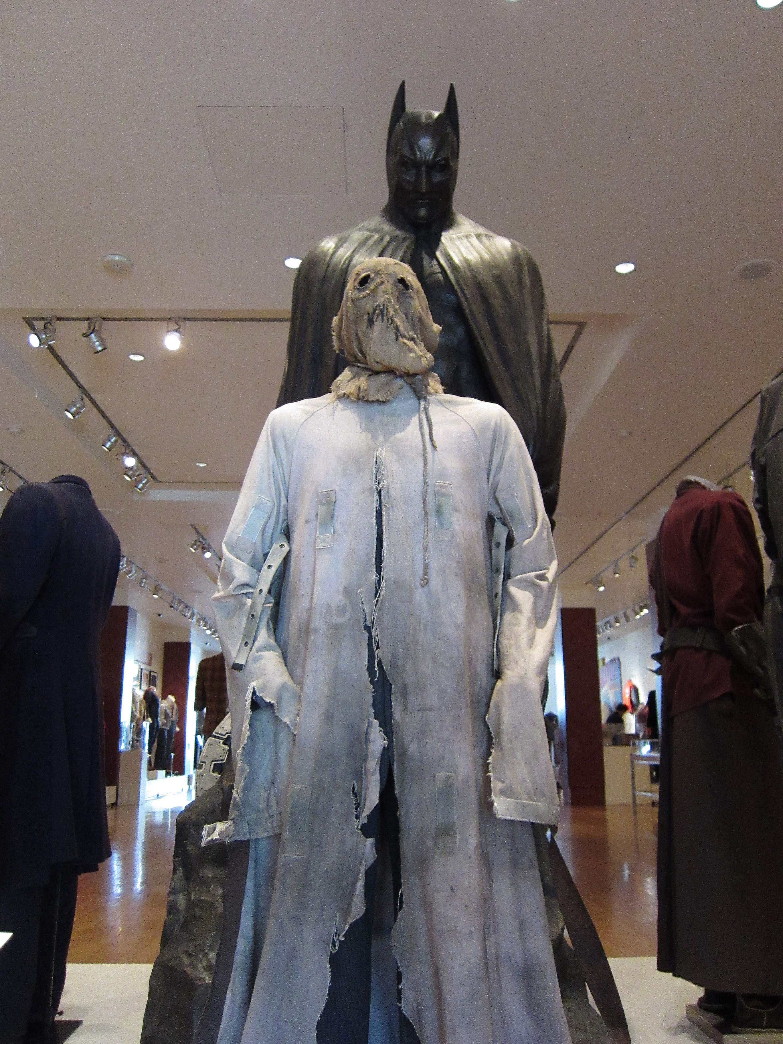 Film props and costumes displayed at Warner Bros. Studios, Burbank, , California, USA.